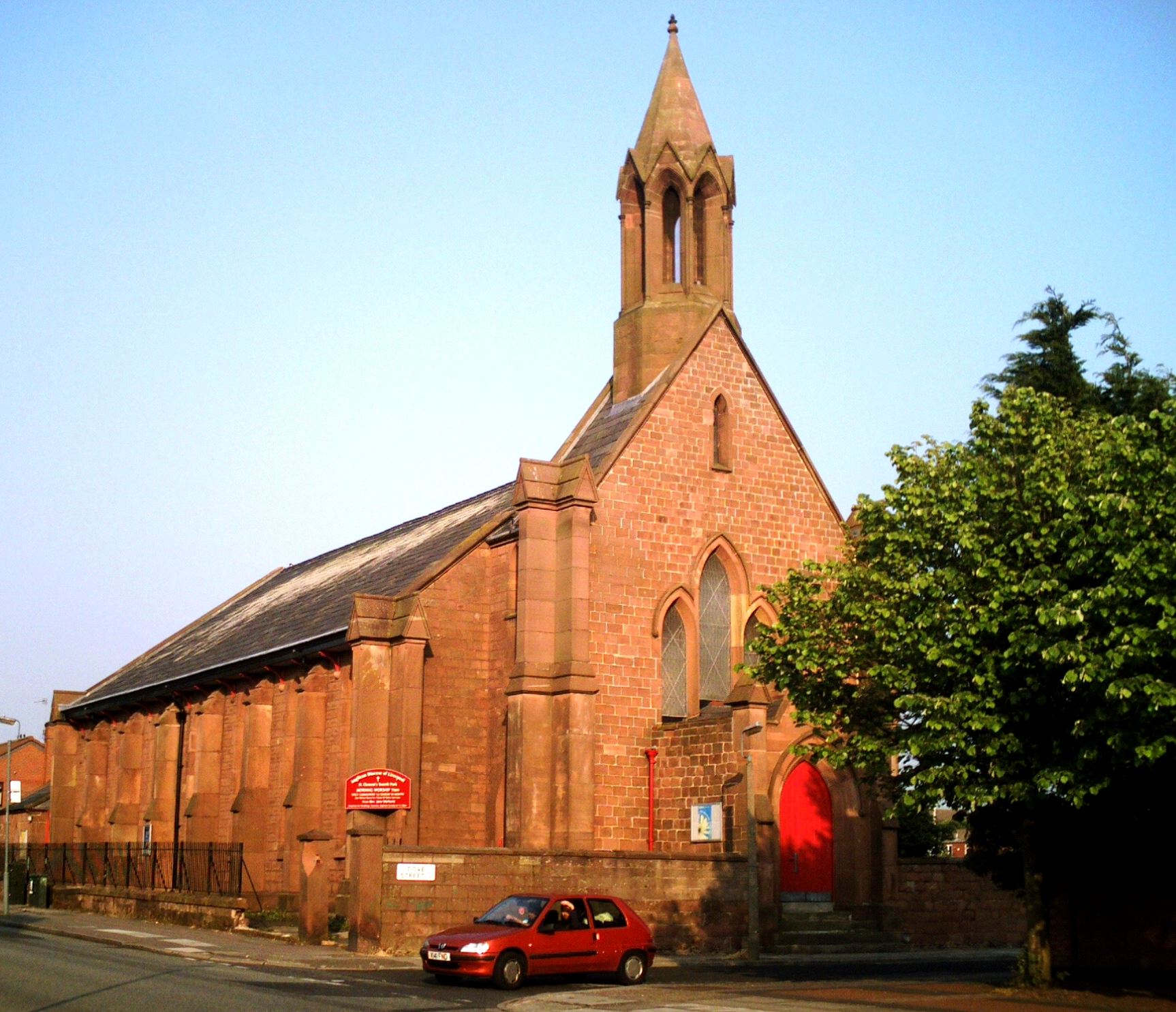 St Clement's church, Beaumont Street, Toxteth, is Grade II* listed.